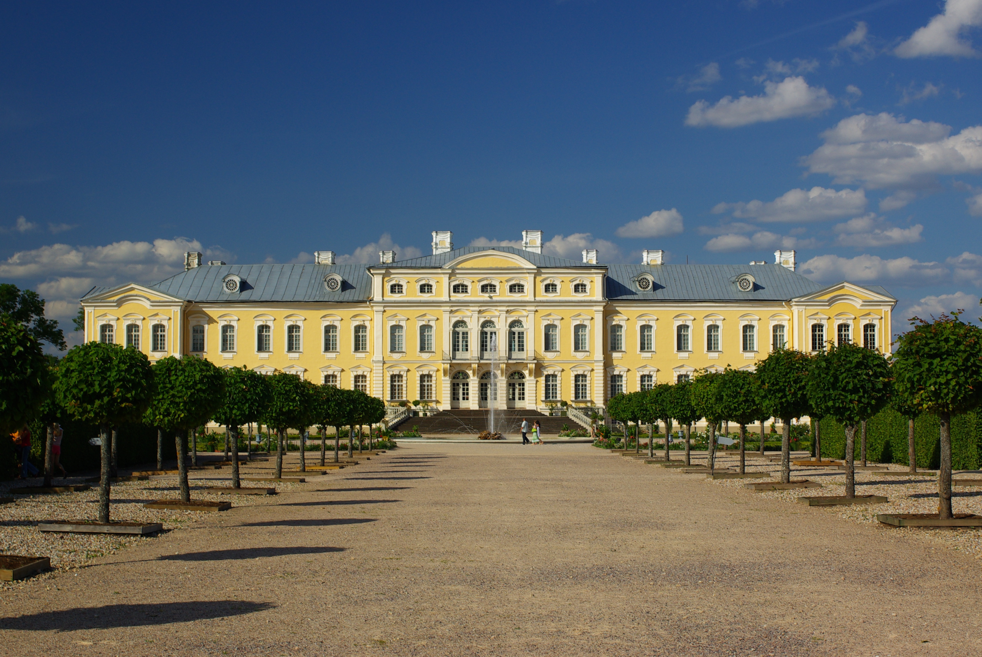 Main facade of the Rundāle Palace in Pilsrundāle, Latvia.